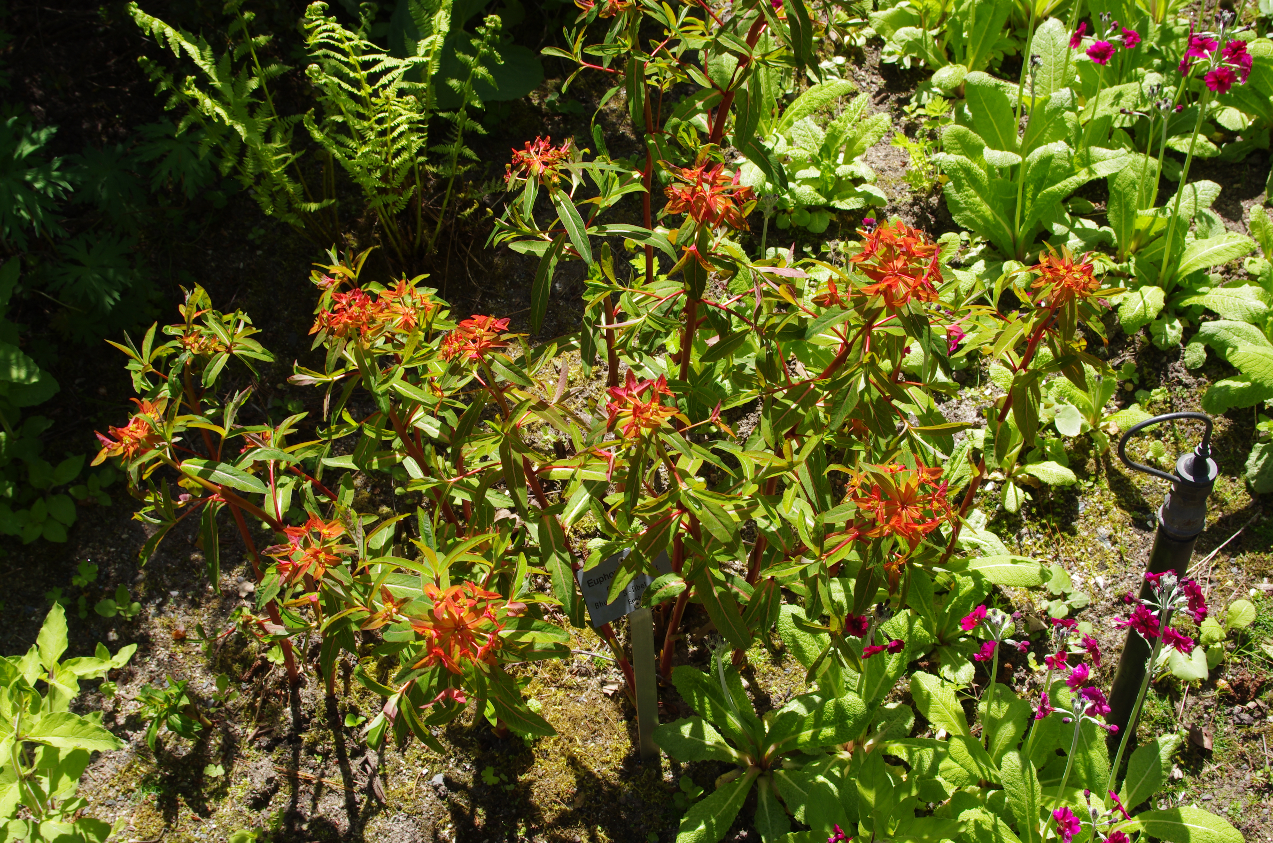 Euphorbia griffithii at the ÖBG Bayreuth